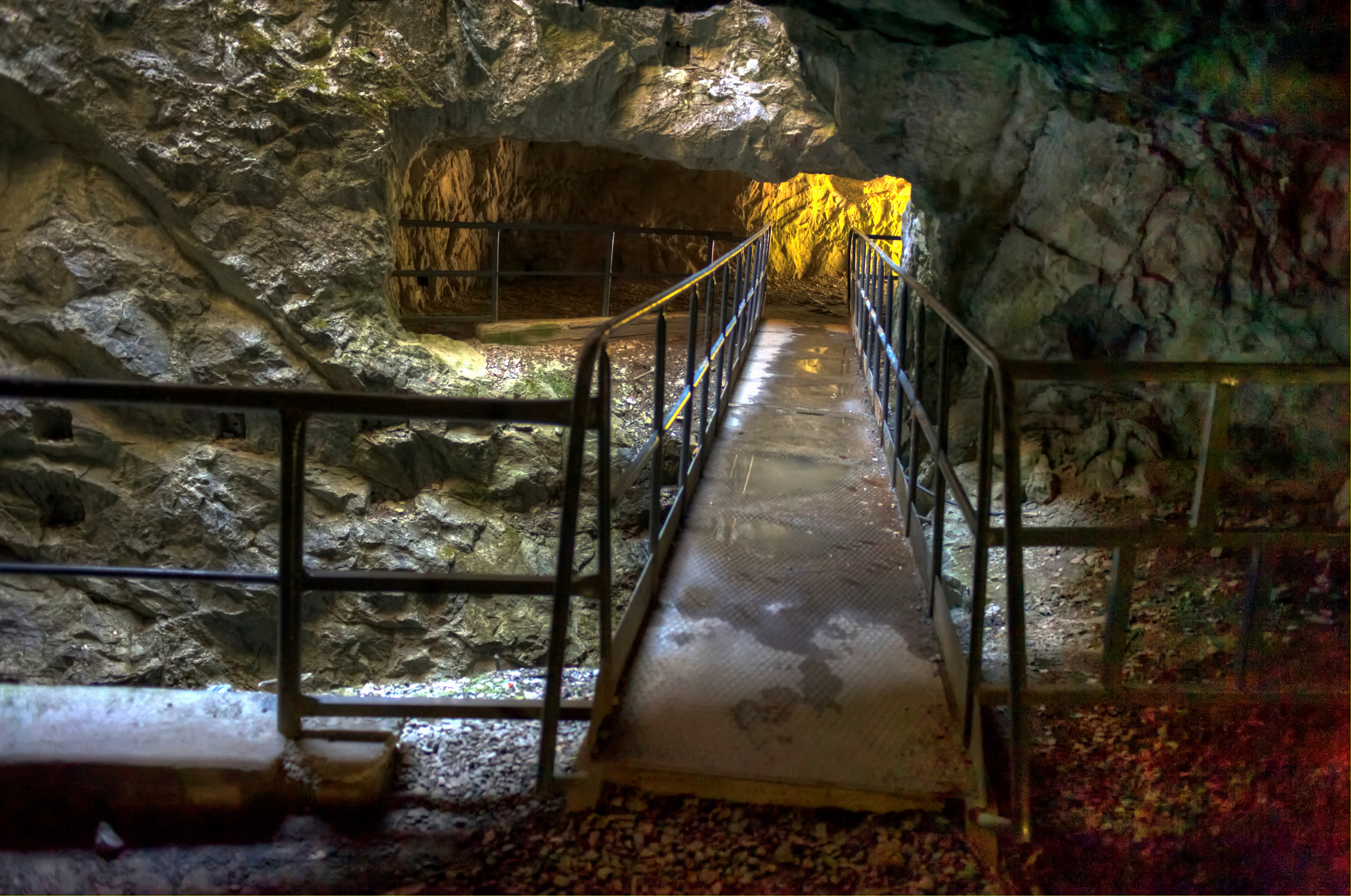 Ruskeala Marble Quarry May 13th 2016